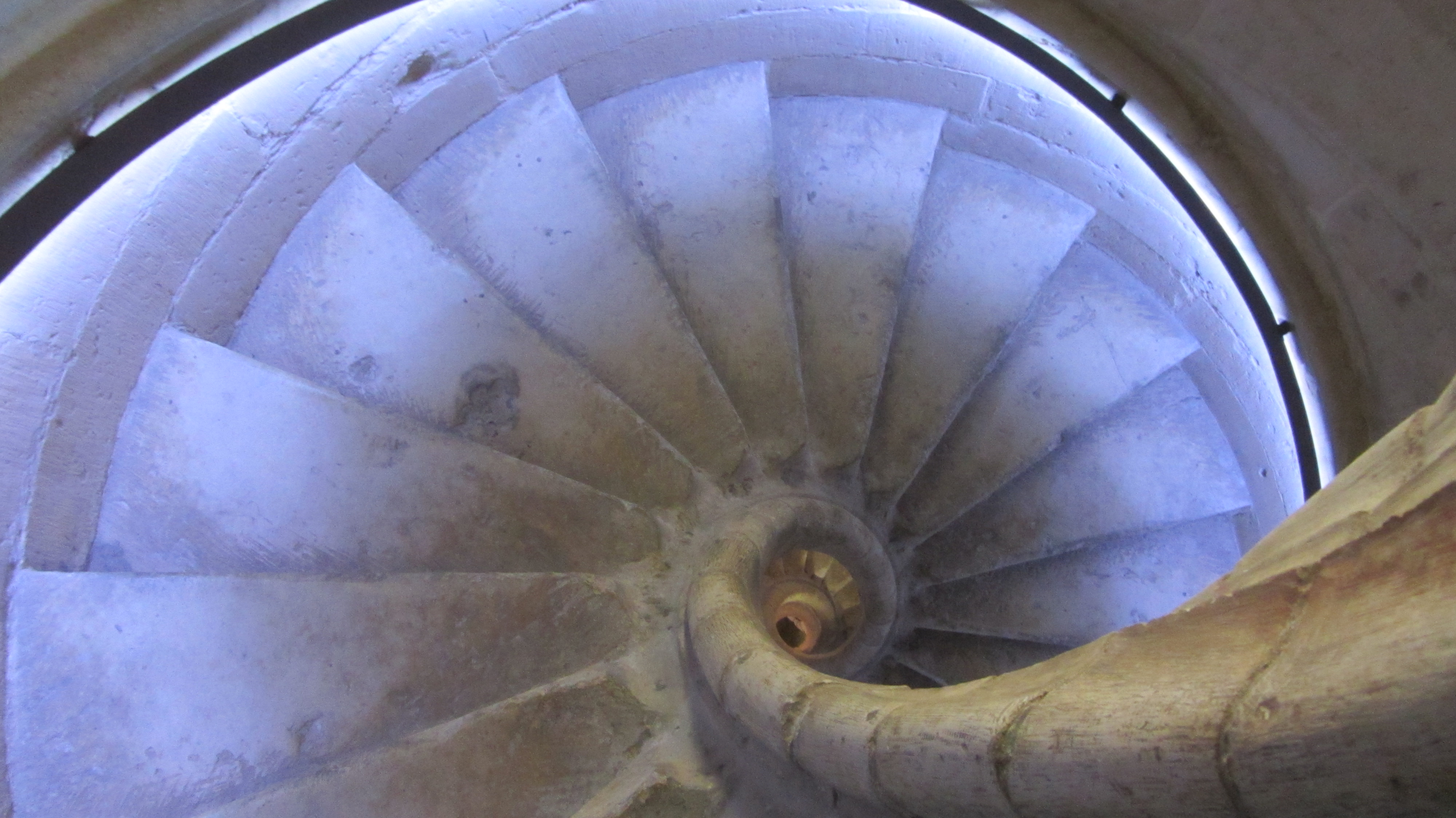 Spiral staircase to access the bell tower of the Alcalá de Henares Cathedral (Community of Madrid - Spain).